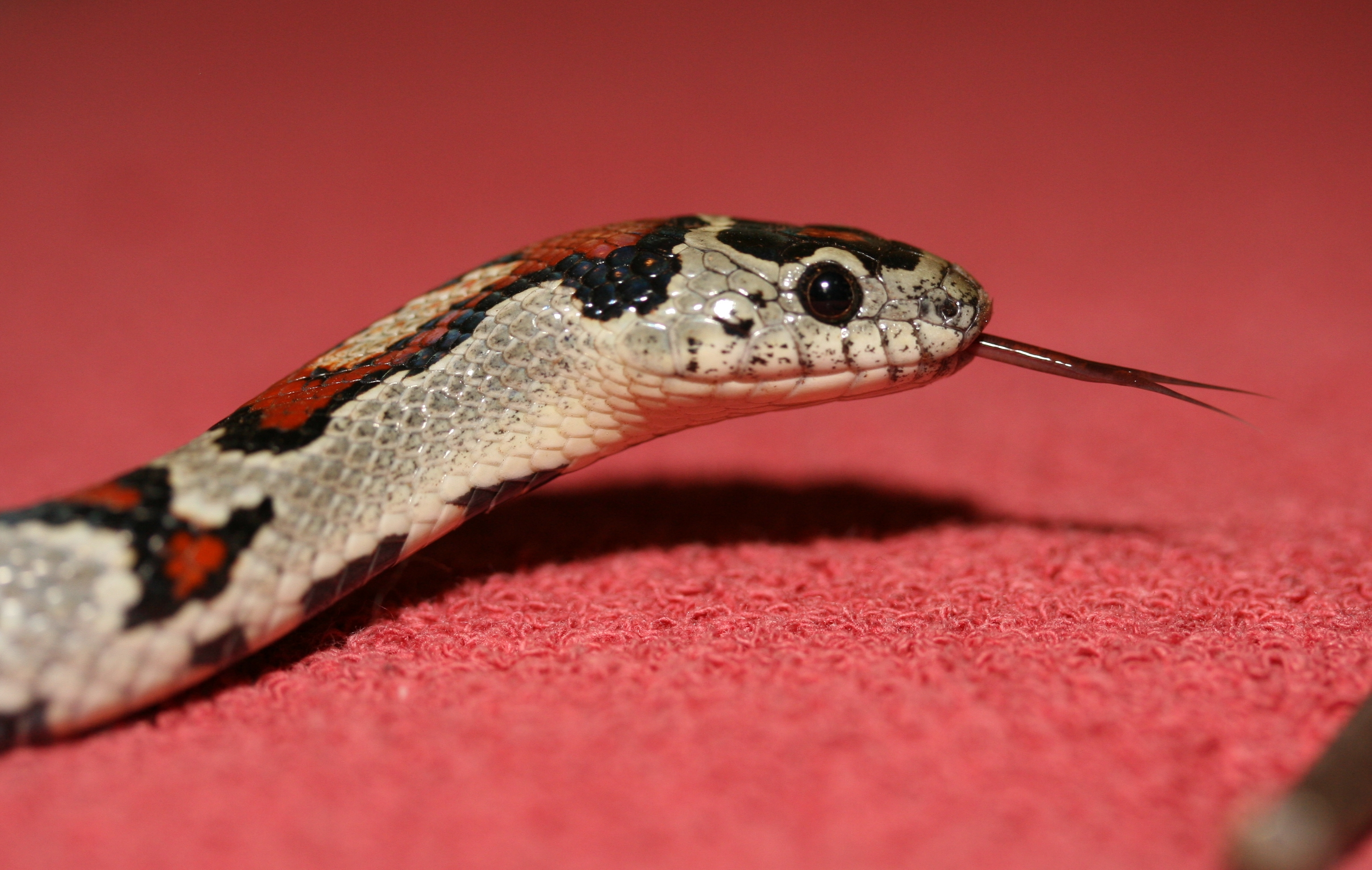 Lampropeltis Mexicana Greeri snake in private collection of Jakub Seif.